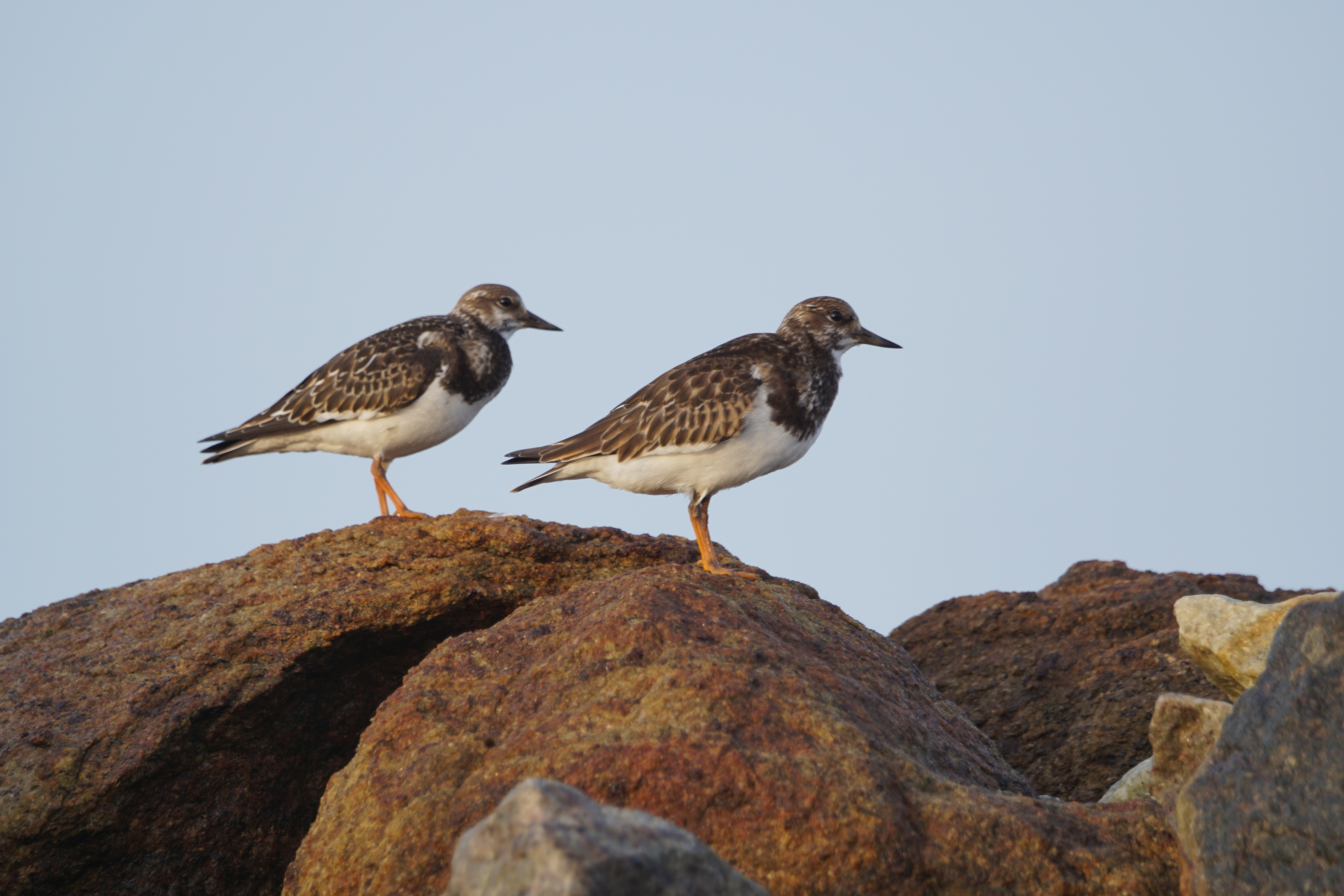 Arenaria interpres - Ruddy Turnstone, Pair photographed from Vellanathuruth, Kollam, Kerala